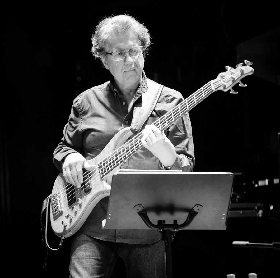 Tim Landers in a concert with Billy Cobham at Cosmopolite. The concert took place on 09. March 2019 in Oslo. Lineup: Billy Cobham (drums) Paul Hanson (saxophone and bassoon) Fareed Haque (guitar) Tim Landers (bass guitar) Scott Tibbs (synthesizer and rhodes)